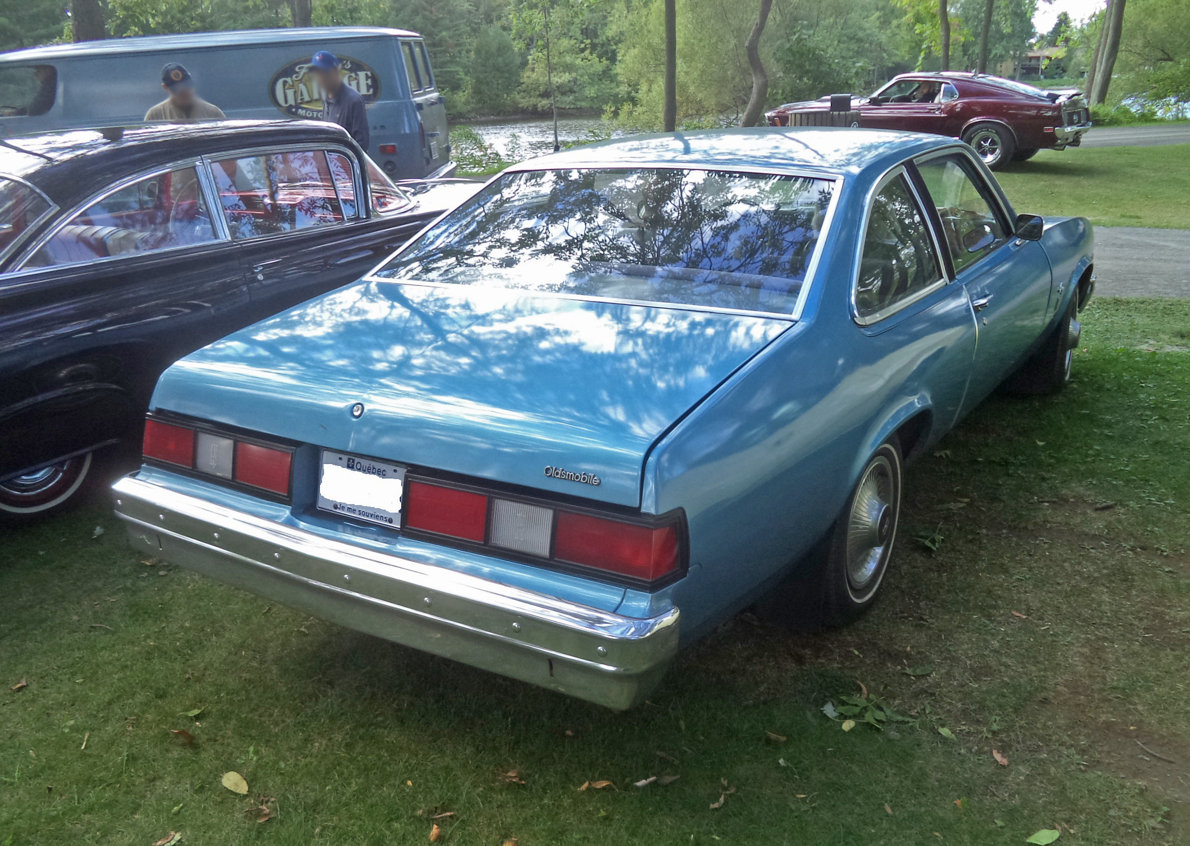 1978 Oldsmobile Omega coupe, rear view. In Canadia.